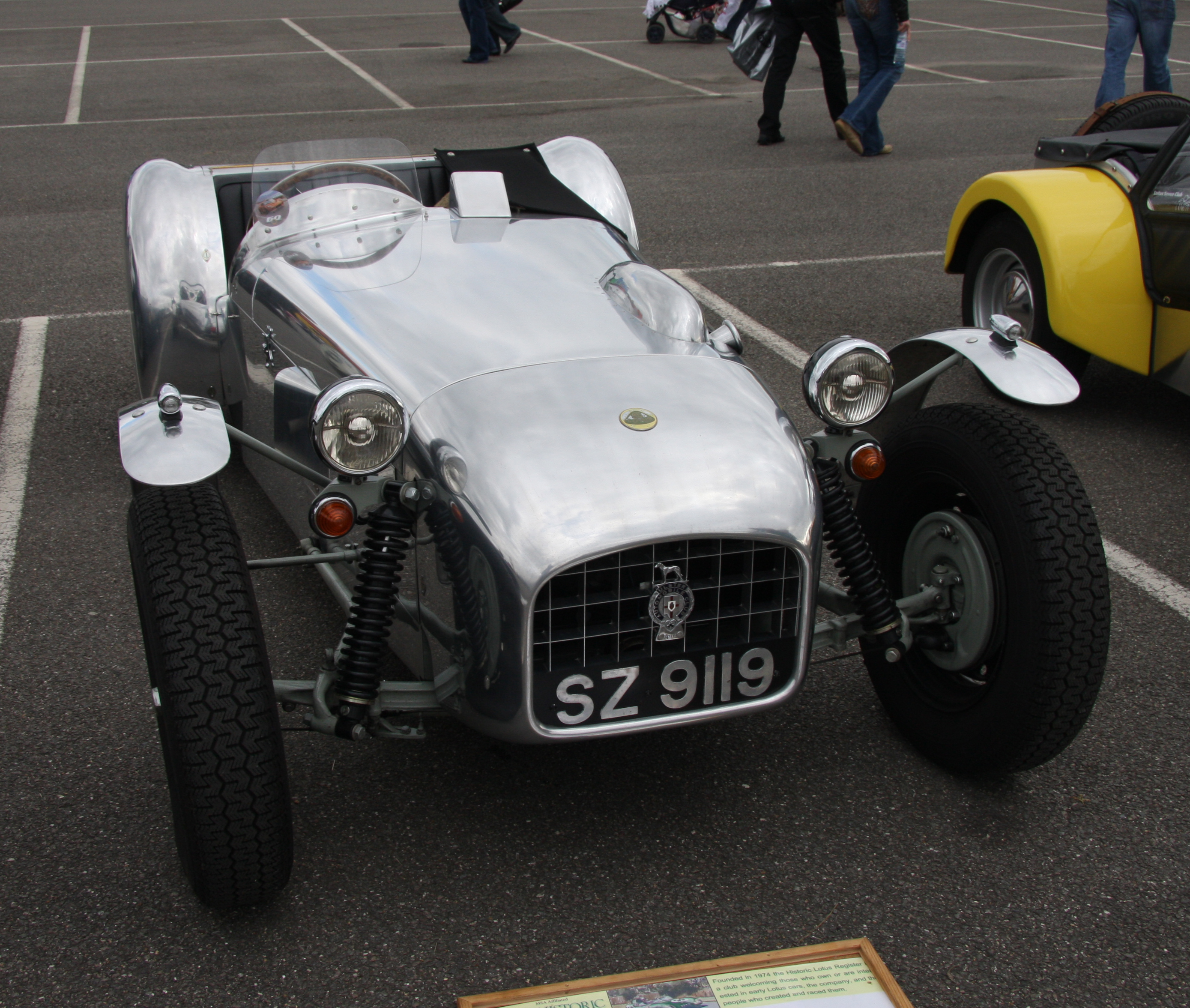 Lotus 6 at Lotus 60th Celebration